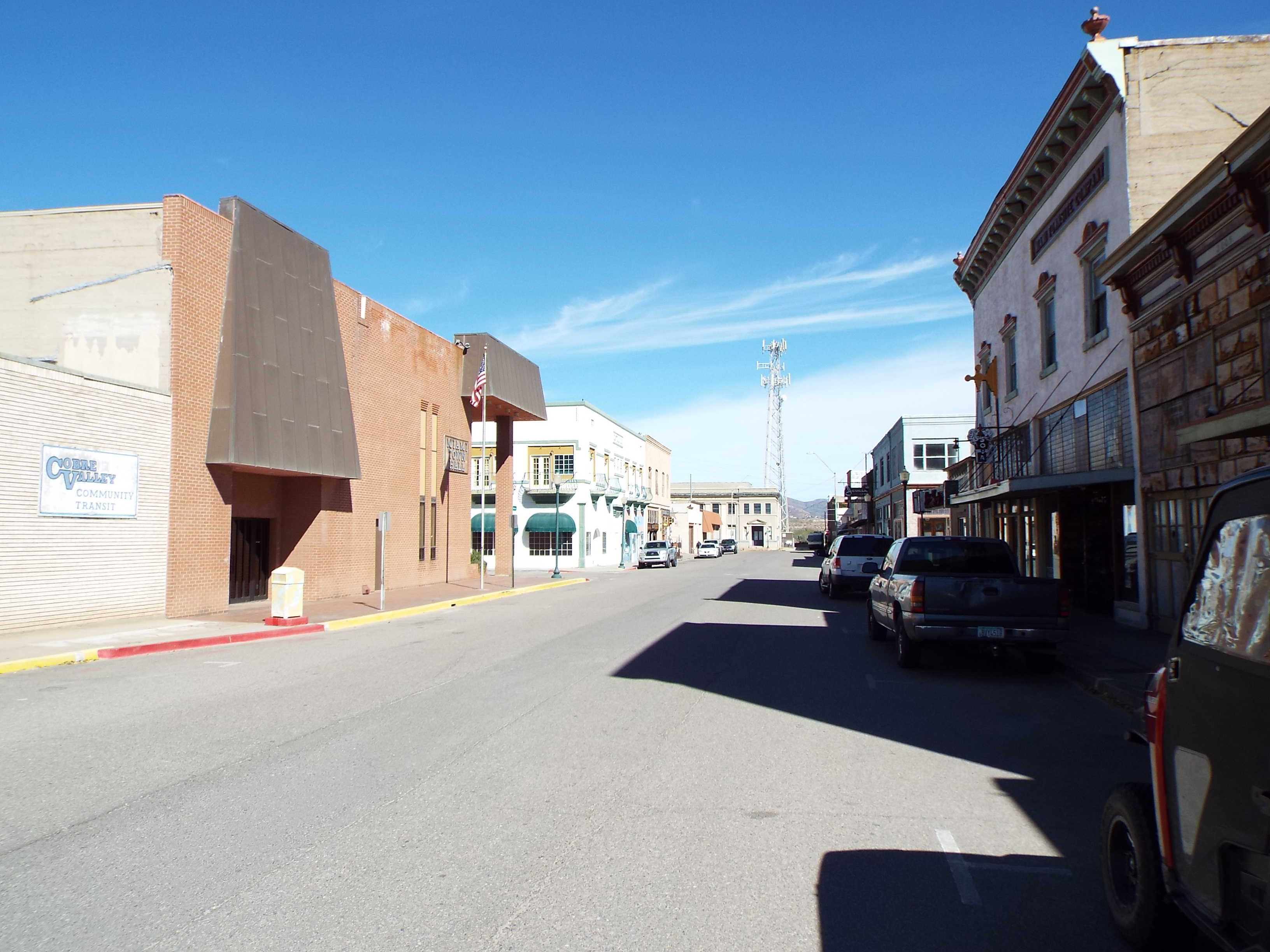 Sullivan Street in Miami, Arizona